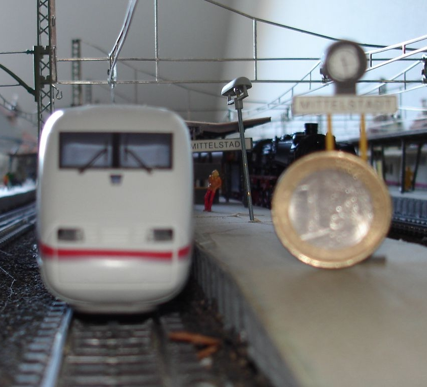 An ICE 1 model railway train, gauge H0